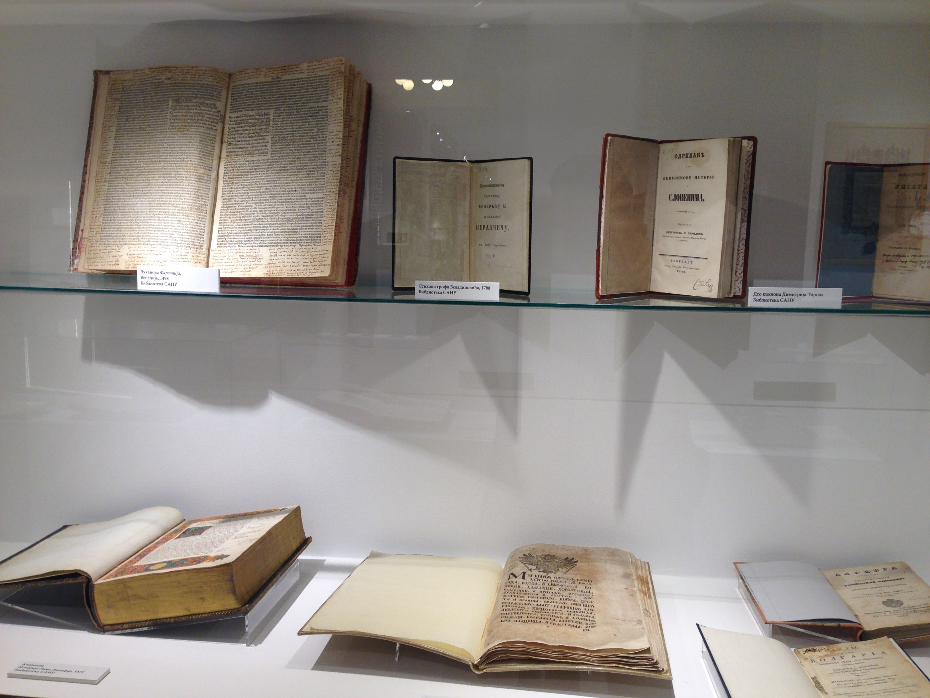 Historical Collection, Archive of the Serbian Academy of Sciences and Art in Belgrade